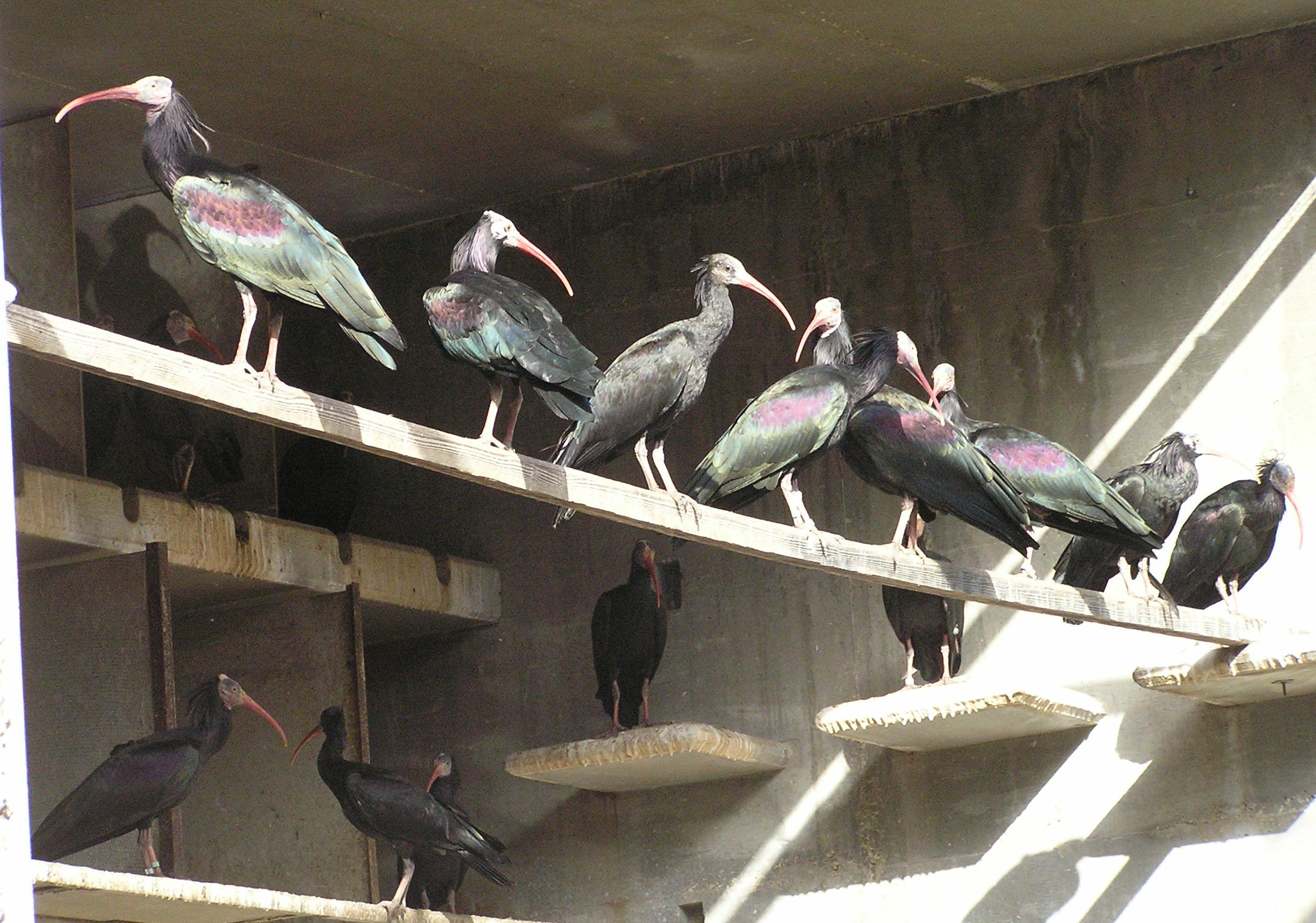 Taken in the Garden for Zoologic Research, Tel Aviv University, Israel.